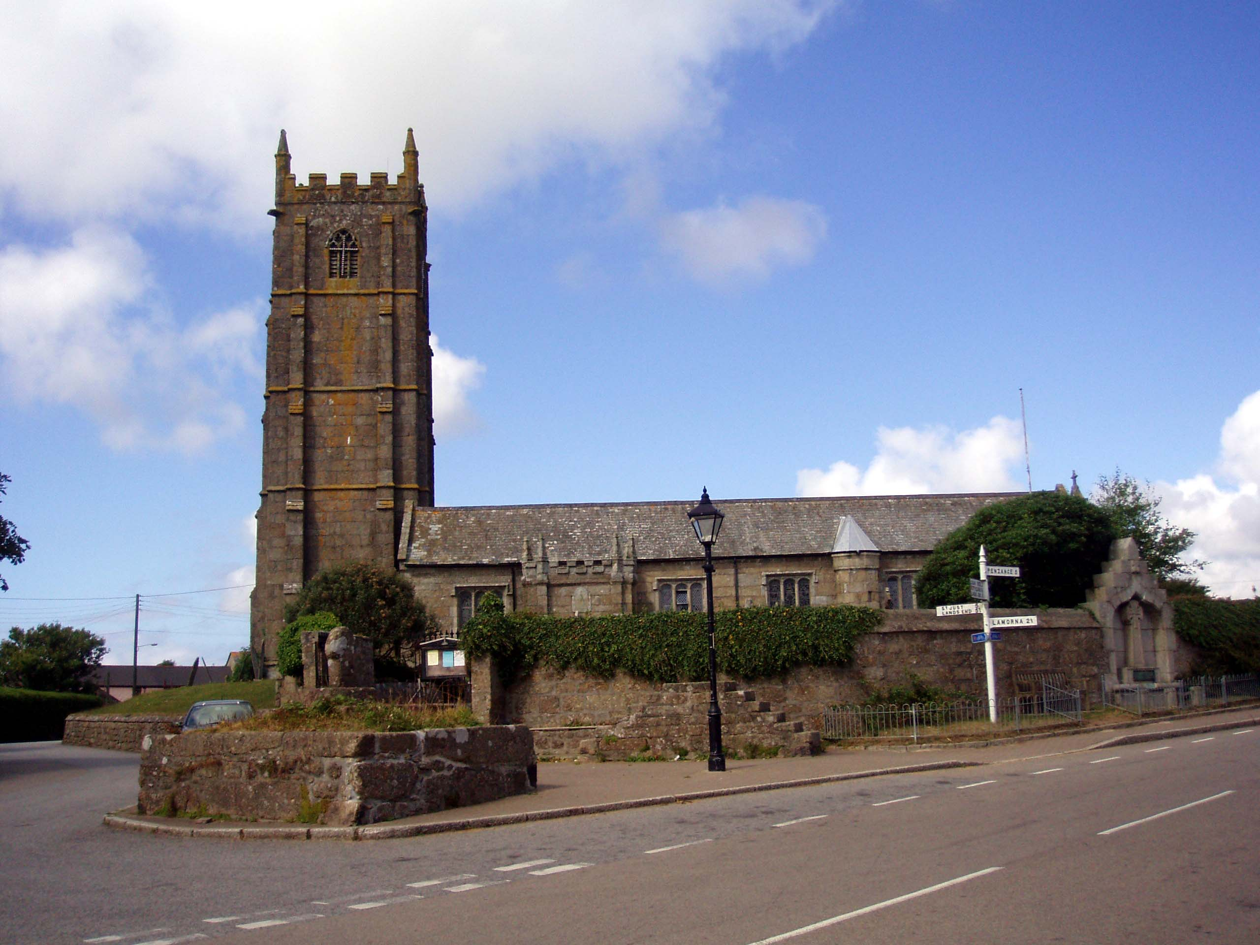 The church of St Buryan as seen from the front entrance. The church is dedicated to Saint Buriana.